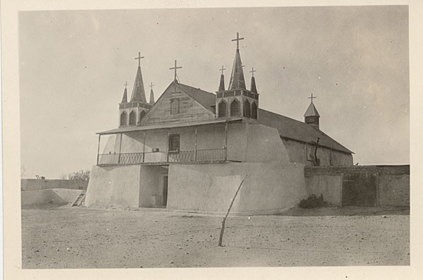 San Agustin de la Isleta Mission (1925). Adobe church in Isleta Pueblo, New Mexico. With "new" wooden Gothic Revival style church towers placed atop the adobe structure.